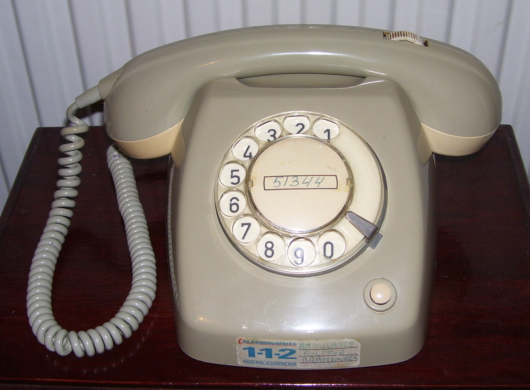 The T65 standard telephone as used on the dutch telephone network. This particular telephone has a built in amplifier for hearing disabled people. (the wheel on the horn)